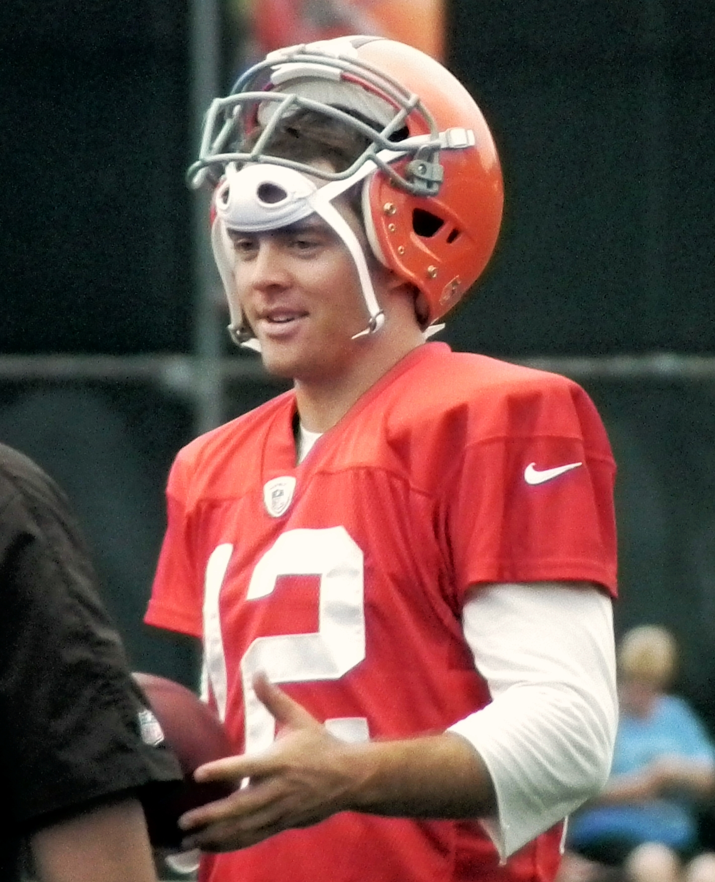 Colt McCoy at the Cleveland Browns training camp in 2012